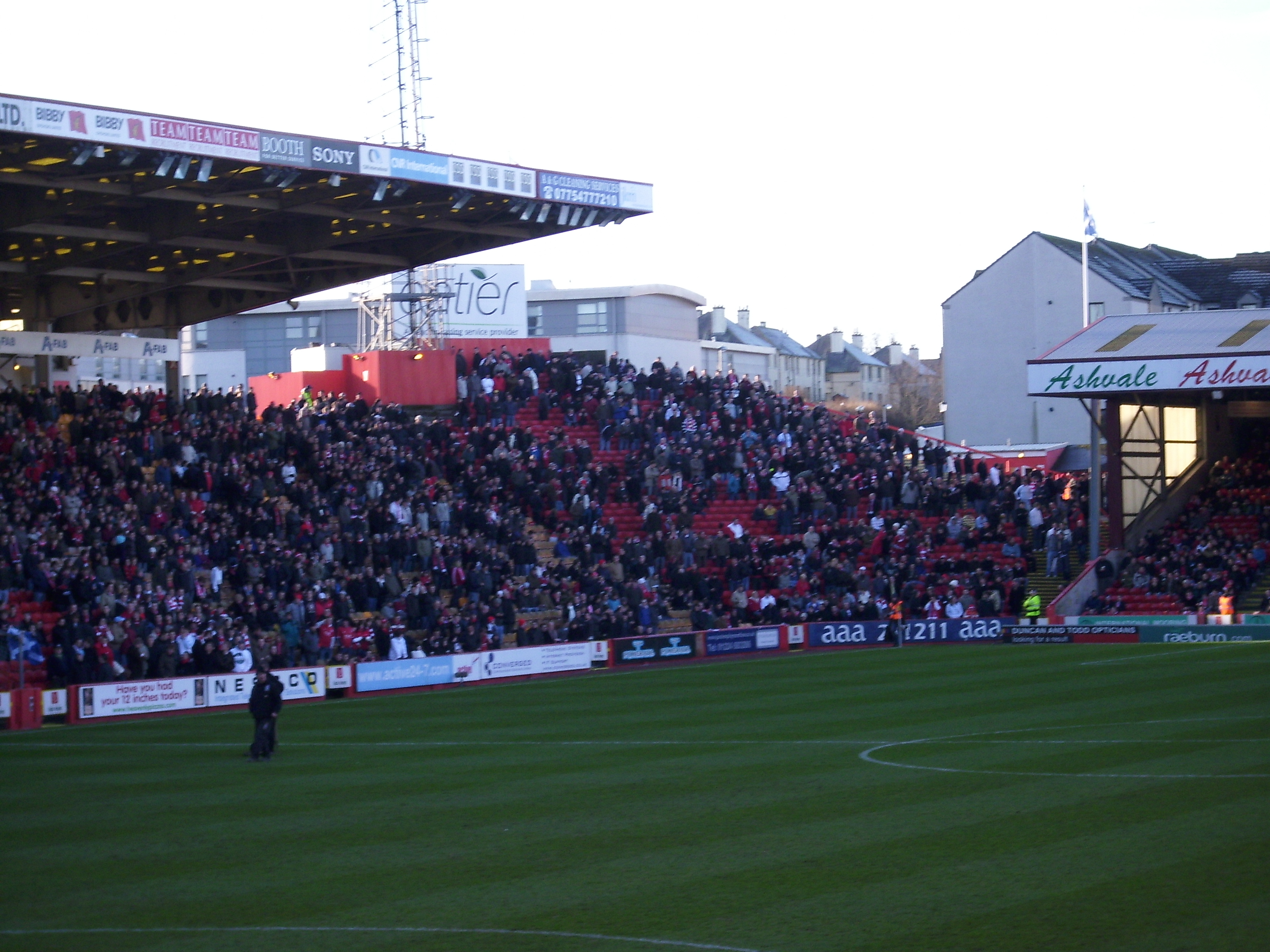 The south stand of Pittodrie Stadium.